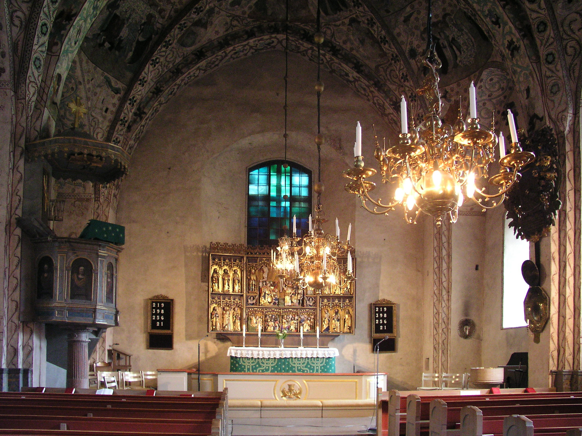 Täby kyrka, Diocese of Stockholm. Altar. The photo was taken the 16th of August 2003 by Håkan Svensson (Xauxa).